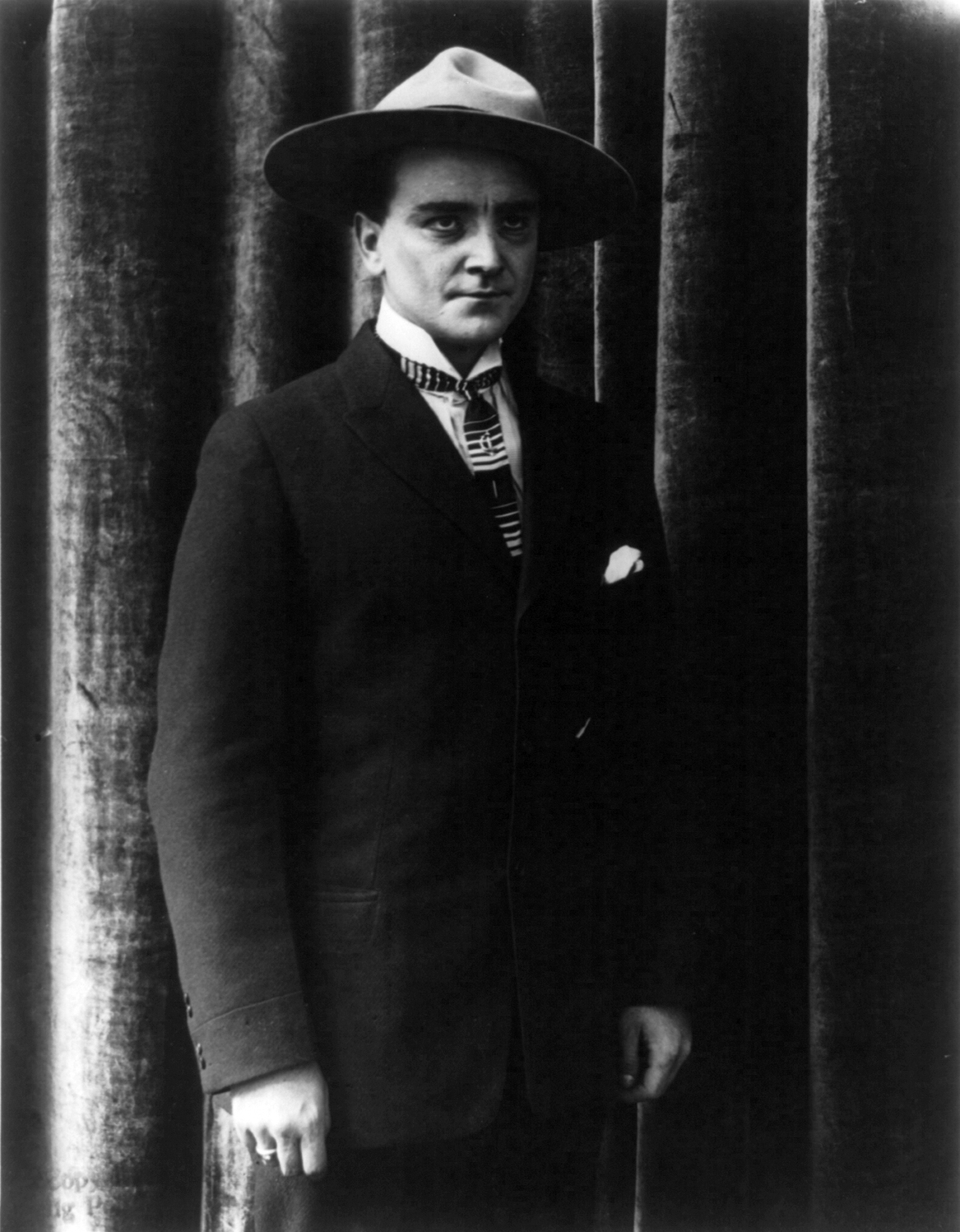 Wheeler Oakman, American actor. This still photograph was made to accompany the melodrama motion picture film The Spoilers (1914) and is similar to how Wheeler Oakman is shown during the credits at the beginning of the film.